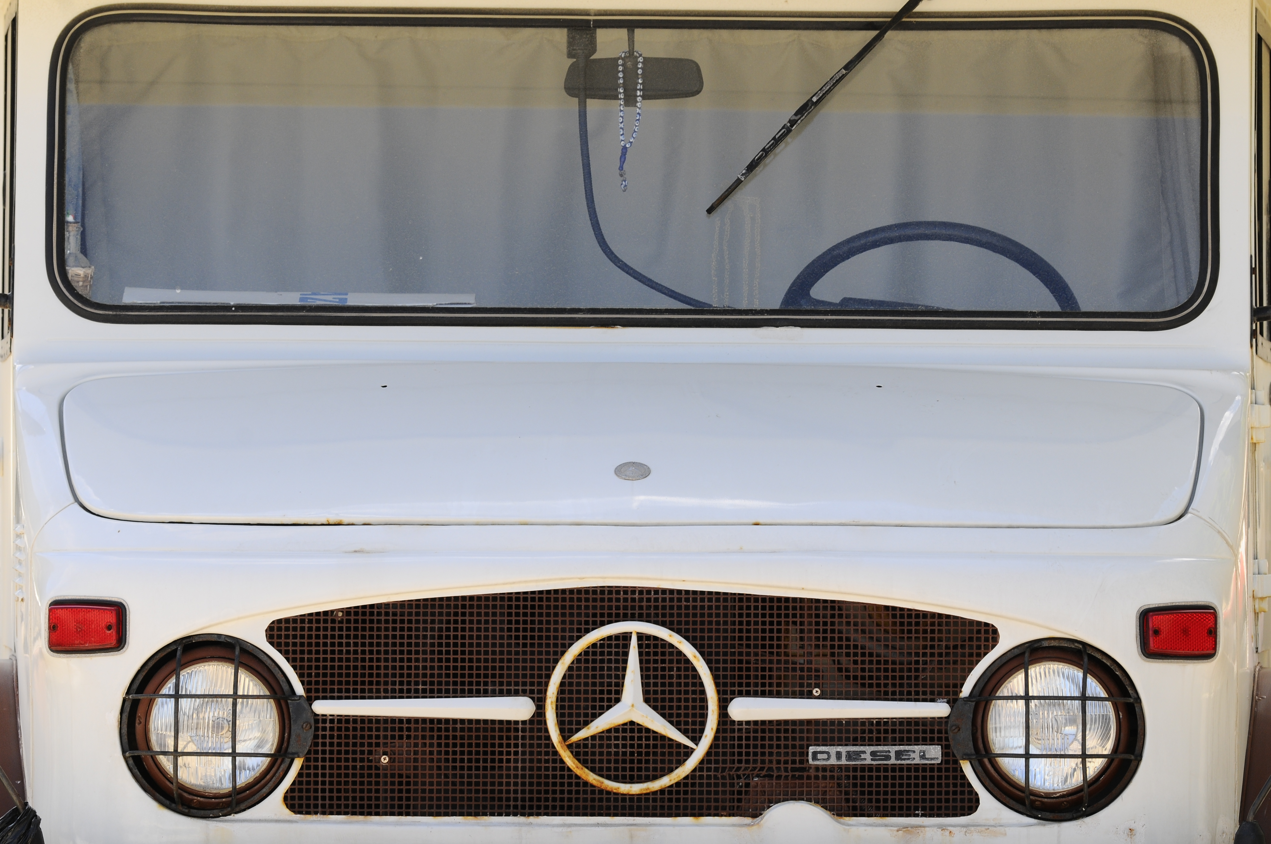 Mercedes Unimog Truck made for the Portuguese market